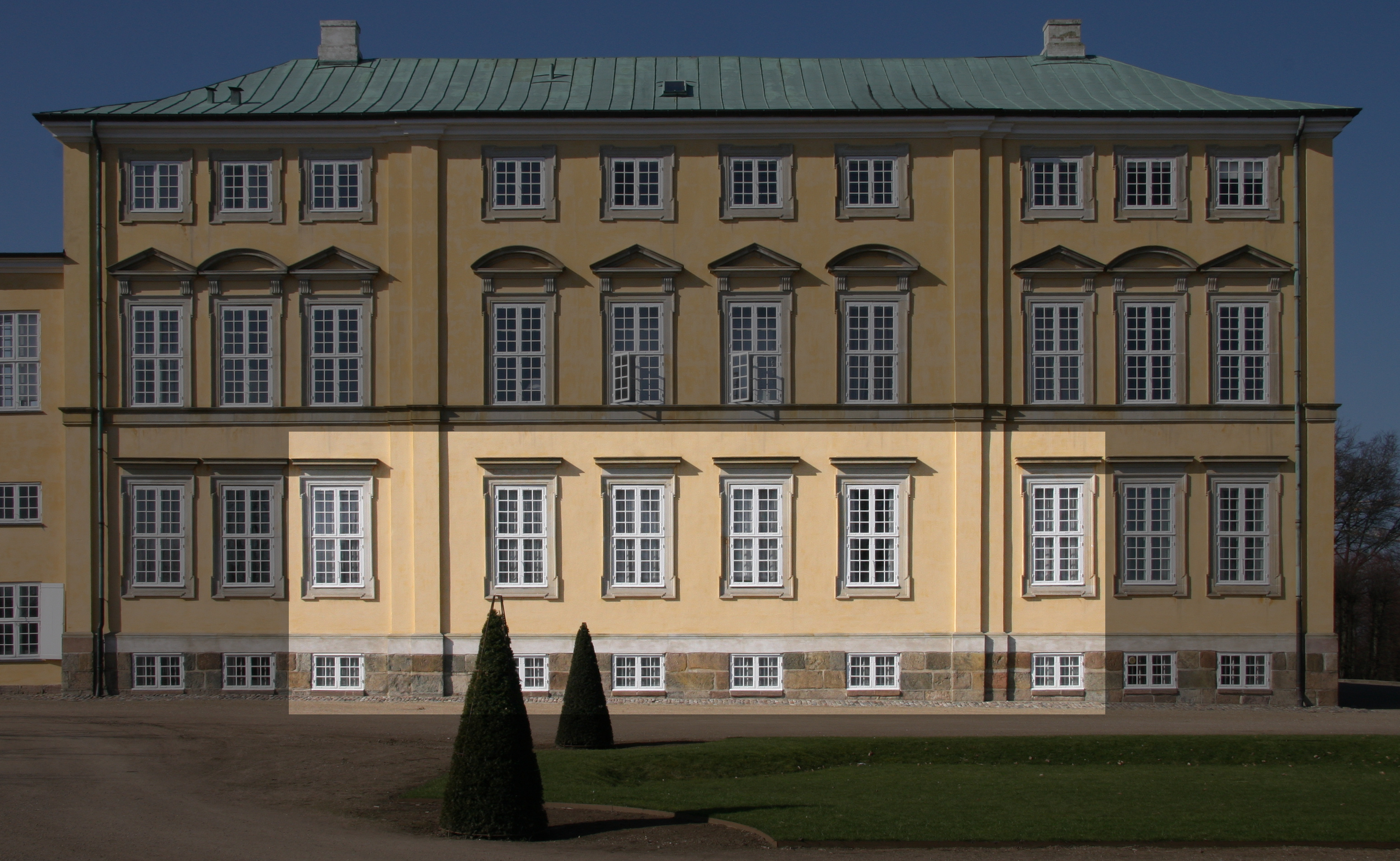 Frederiksberg Slotskirke, Frederiksberg, Copenhagen, Denmark. Eastwing with the windows to the church framed.